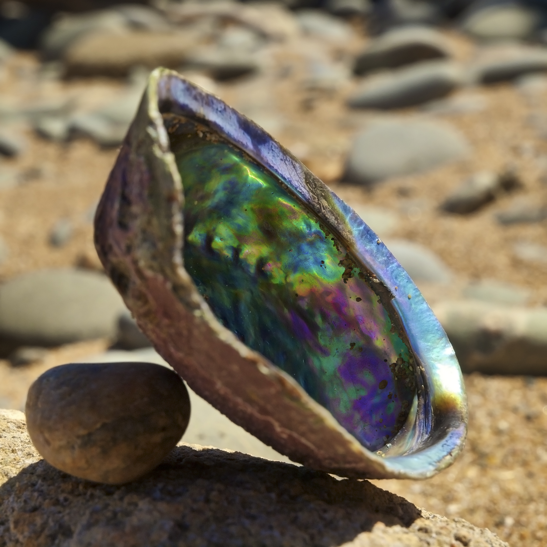 Shell of a Paua snail (Haliotis iris), Oamaru, New Zealand